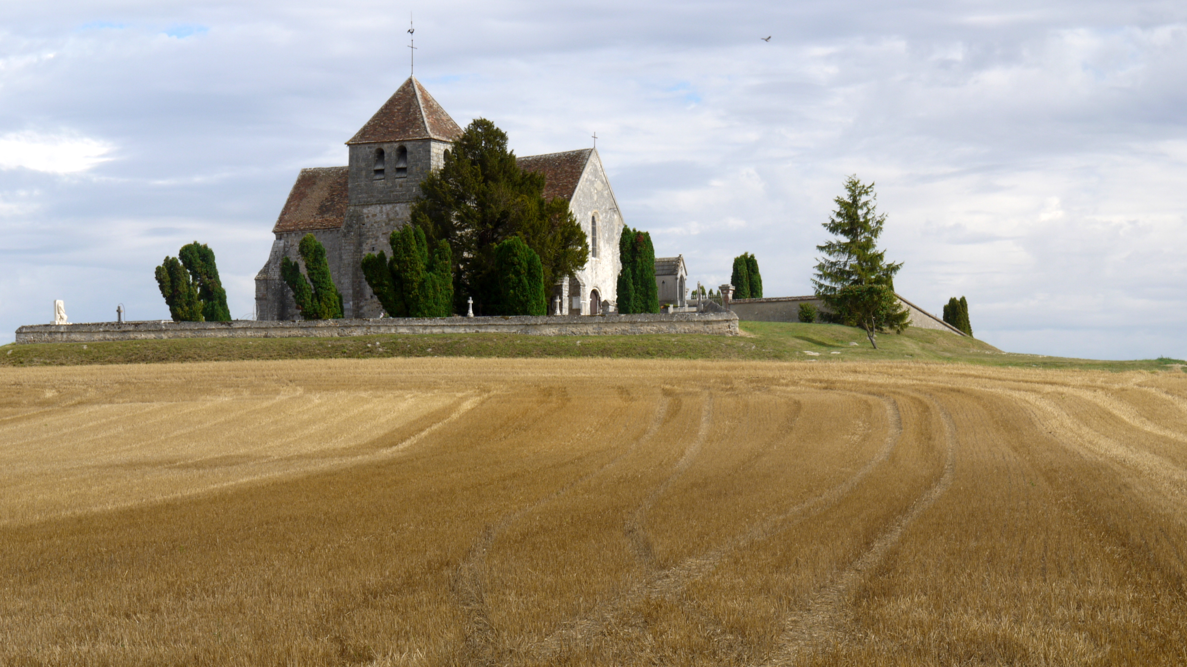 Church of la Genevraye, Seine et Marne, France